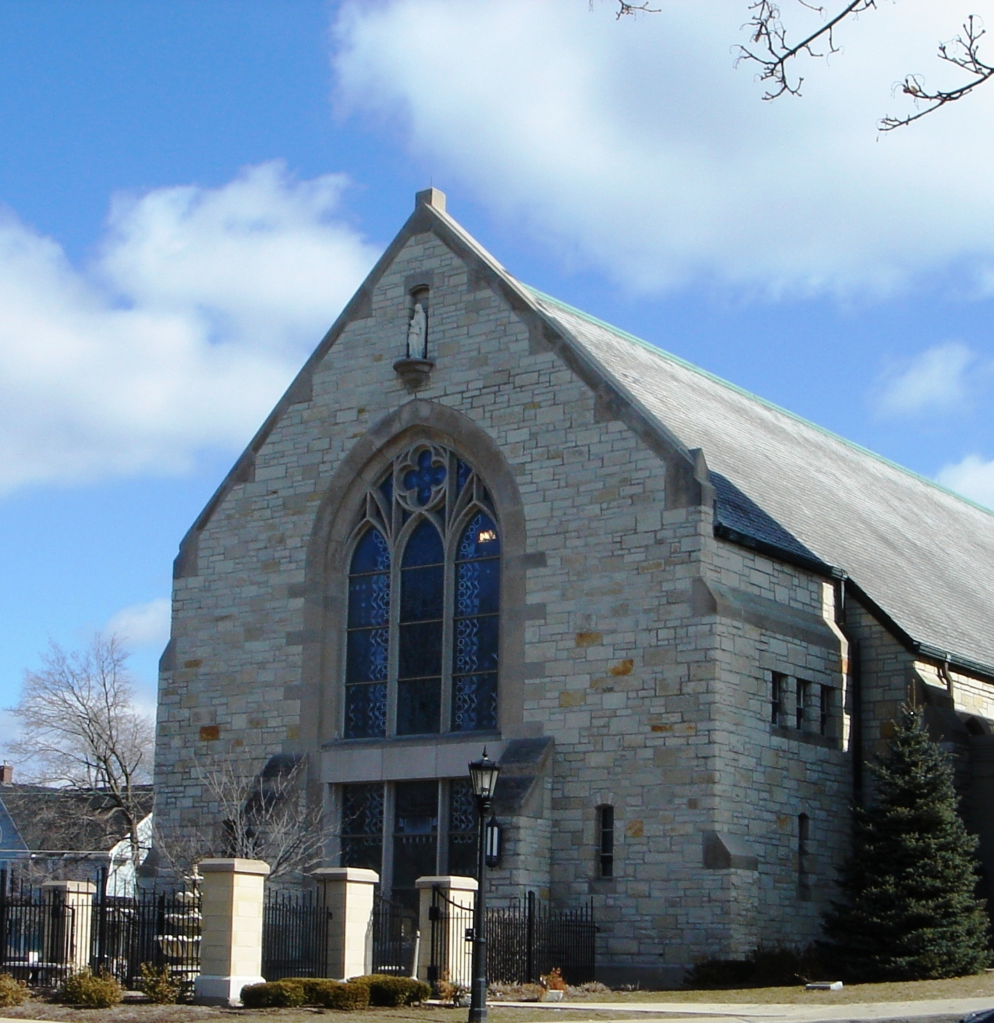 St. Anne Catholic Community, Barrington, Illinois - Chapel Exterior.